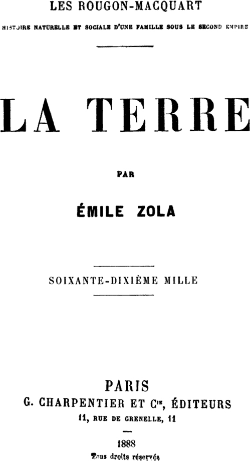 The Earth (1887) by Émile Zola (1840-1902)